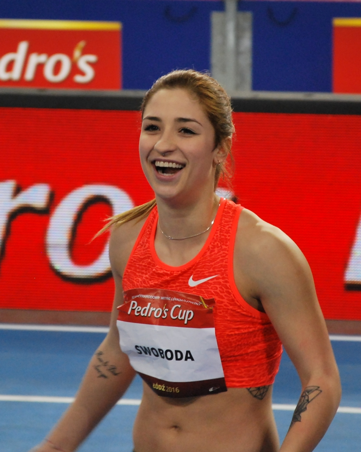 Ewa Swoboda, sprinter from Poland, Pedro's Cup Łódź 2016